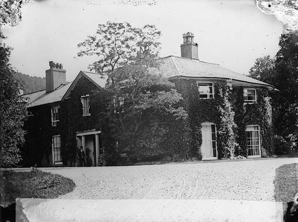 1 negative : glass, wet collodion, b&w ; 8.5 x 11 cm.